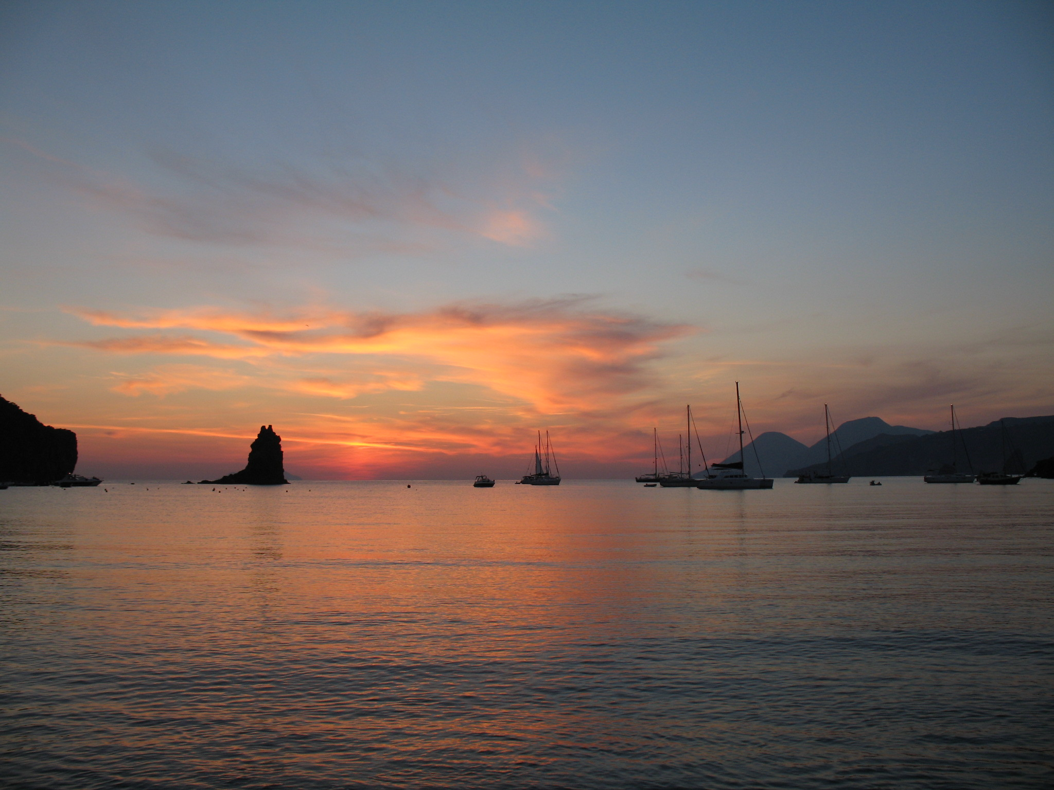 The Black beach at Vulcano, Italy